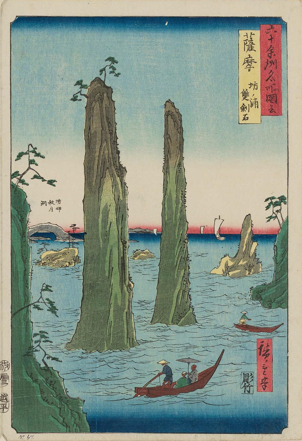 Part of the series Famous Places in the Sixty-odd Provinces, No. 67 (Saikaidō group)